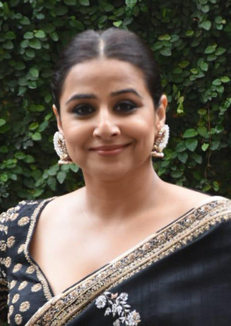 Vidya Balan snapped promoting her film Mission Mangal